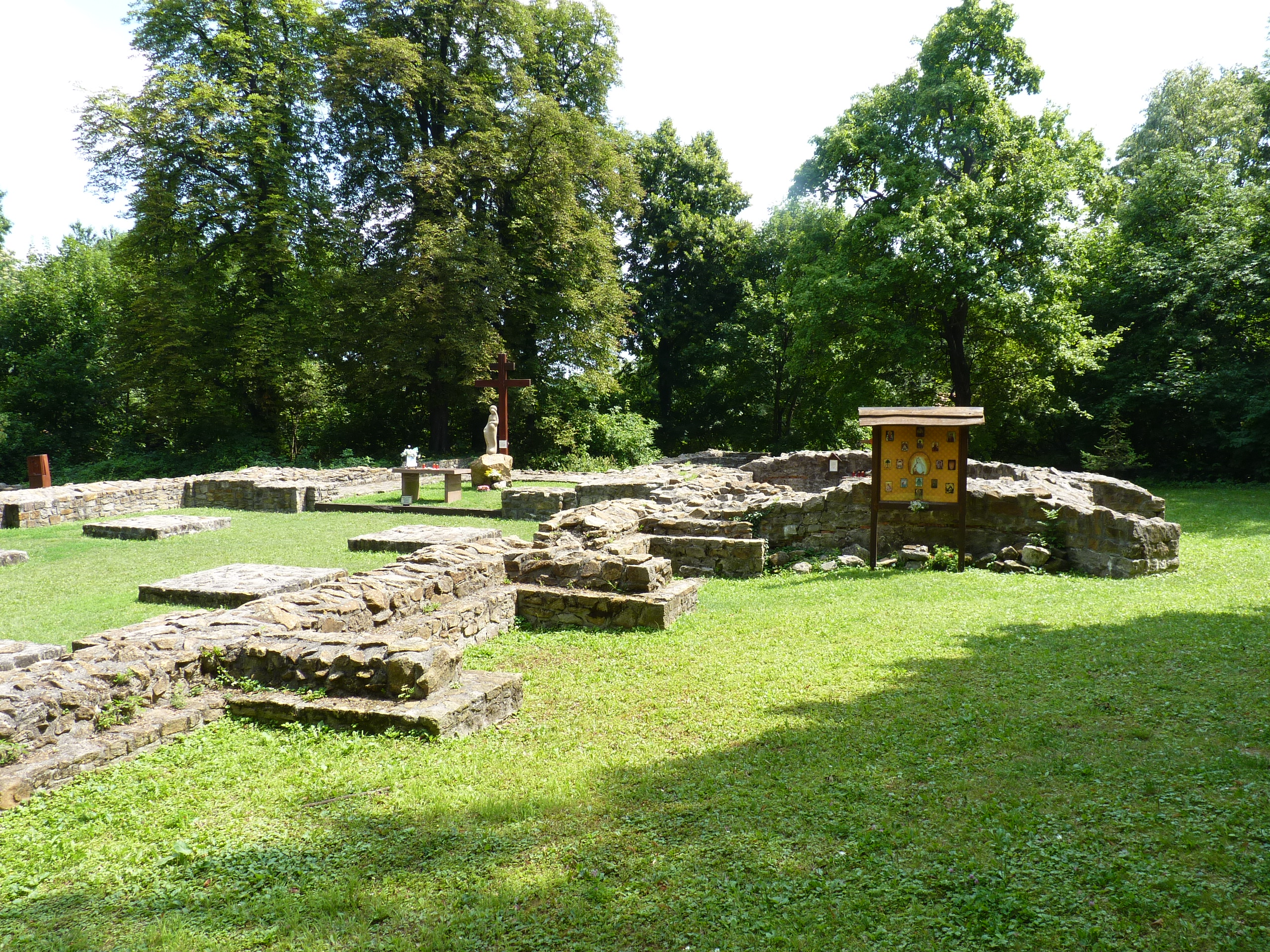 Ruins of Budaszentlőrinc Pauline Monastery